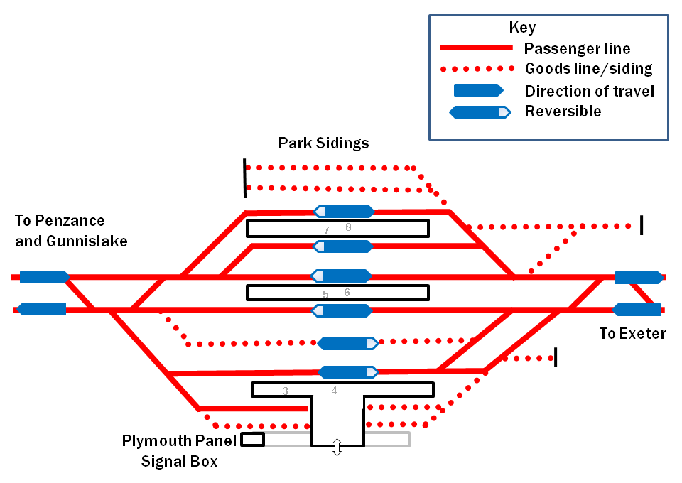 A diagram showing the layout of tracks at Plymouth railway station, Devon, England. Not to scale.